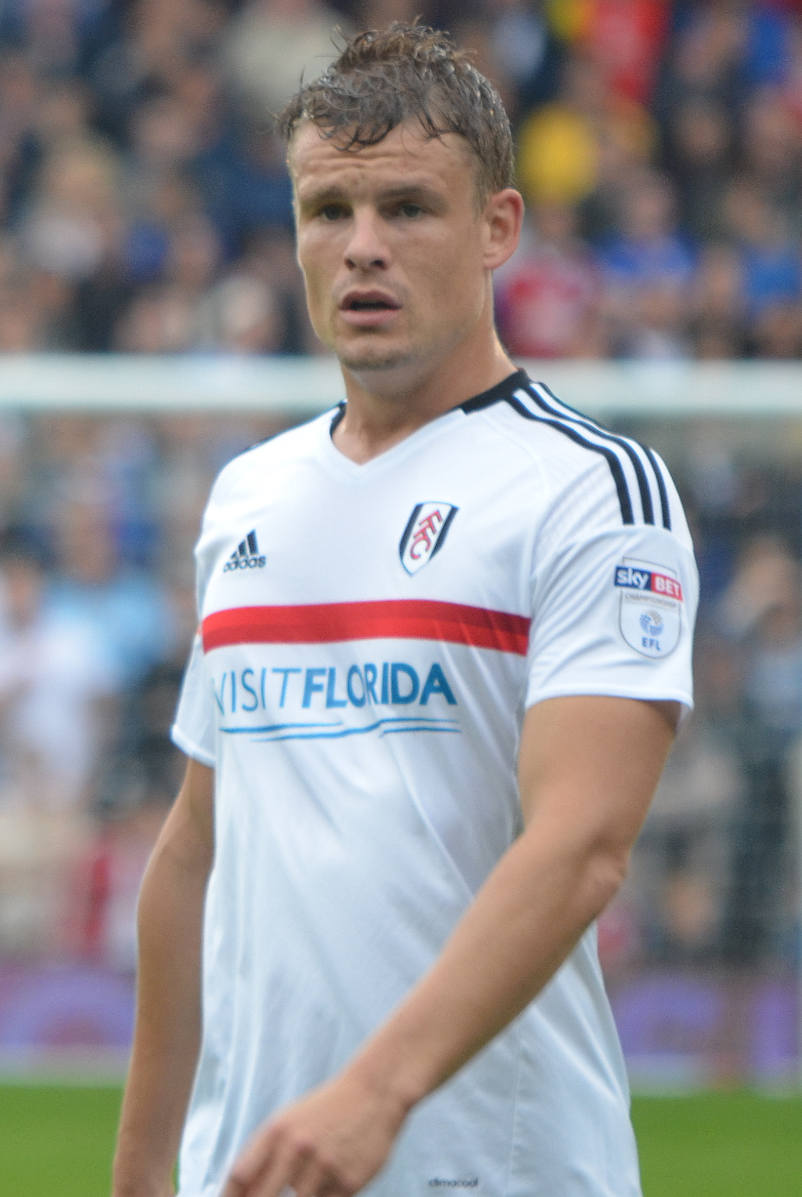 Matt Smith (Fulham FC)